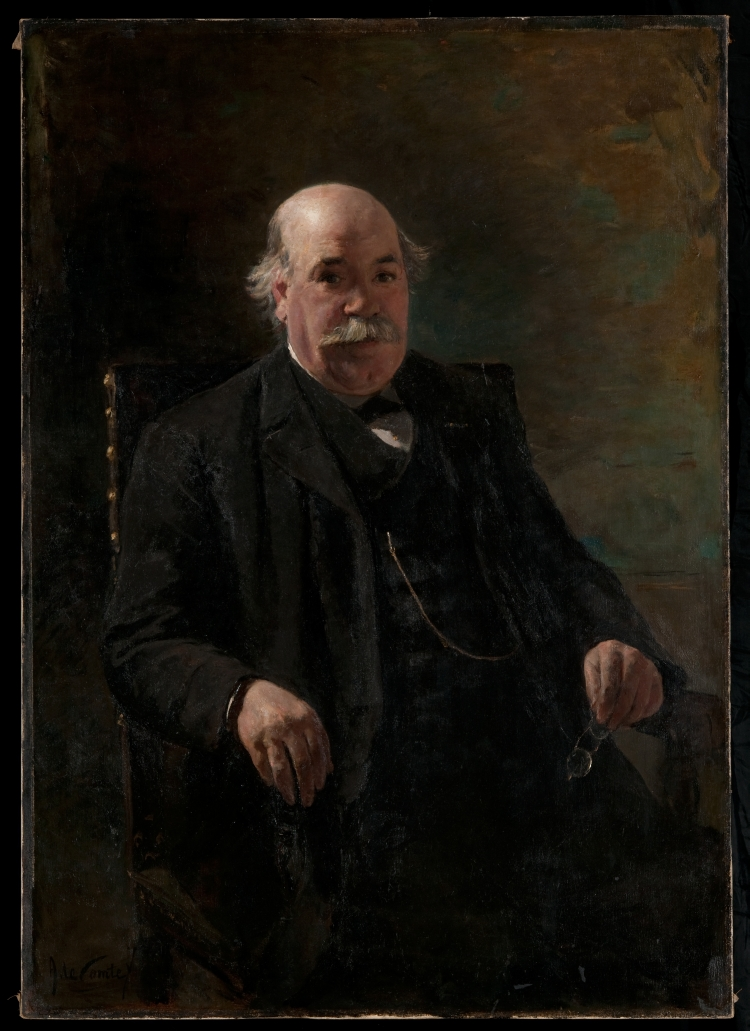 Geschilderd portret van A.C. Oudemans, hoogleraar scheikunde (1864-1895), directeur der Polytechnische school (1885-1895).